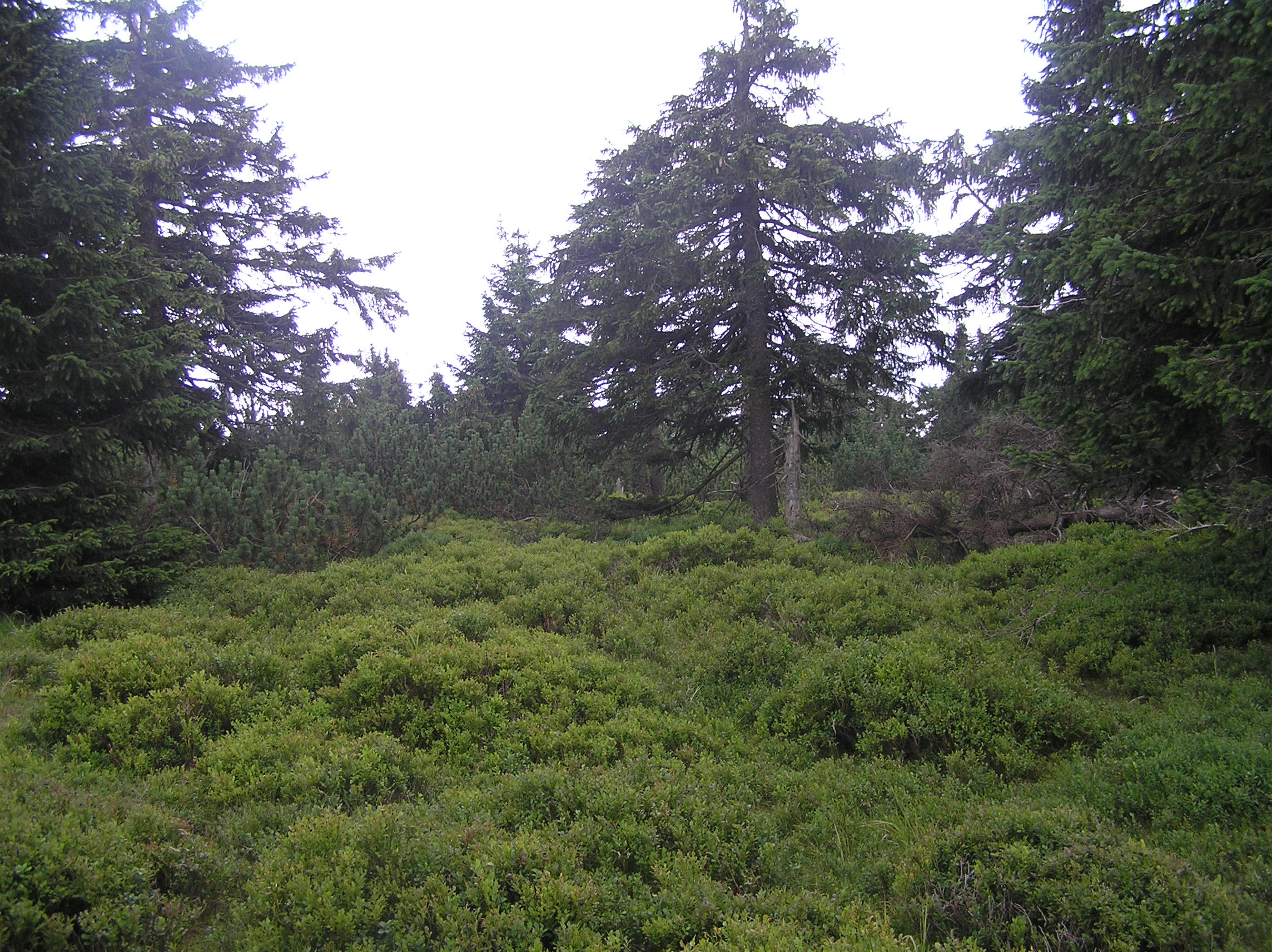 Malý Sněžník (1338 m), the mountain in the border of the Czech Republic and Poland, the Králický Sněžník Mountains